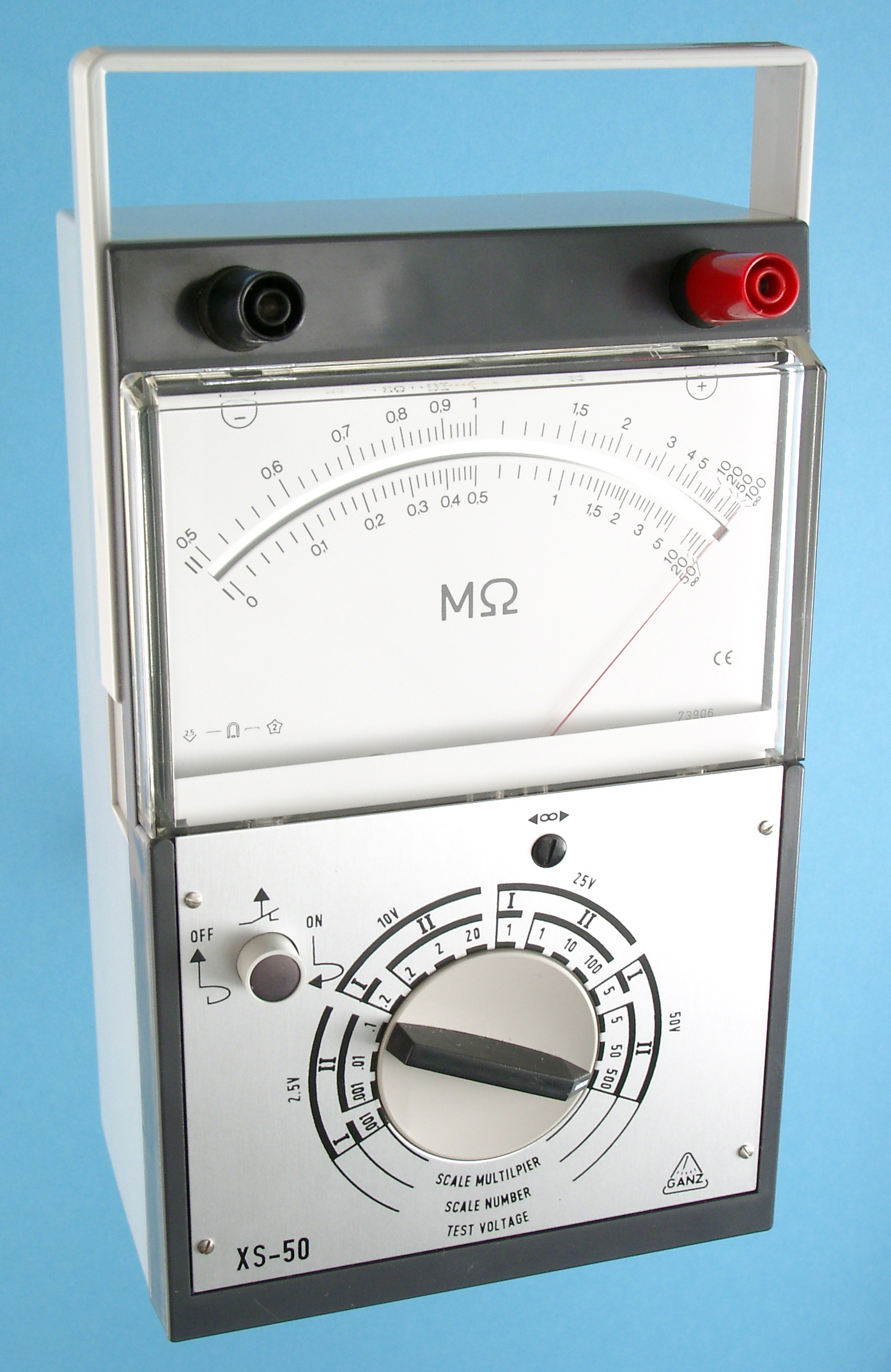 Low-voltage insulation tester